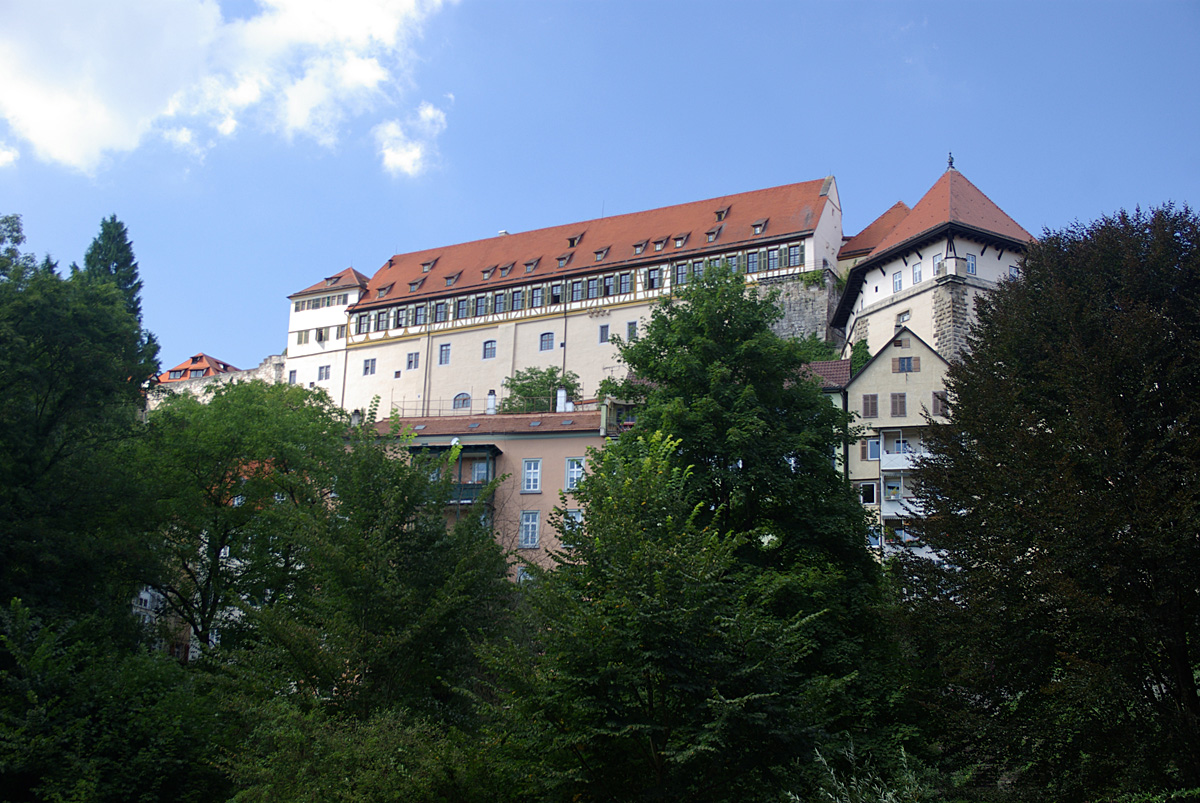 Castle of Tübingen